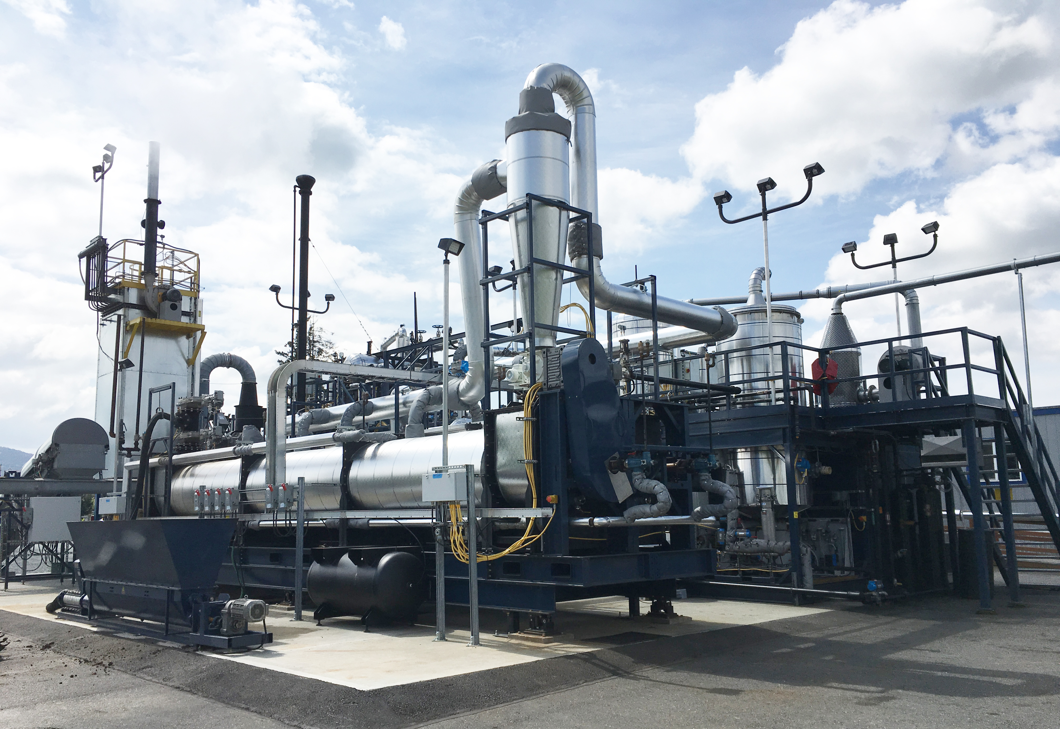 JANICKI OMNI PROCESSOR, taken at Janicki Bioenergy’s headquarters in Sedro-Woolley, WA, courtesy Janicki Bioenergy